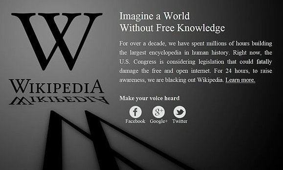 The screen when users tried to access Wikipedia on January 18, 2012. Wikipedia participated in a protest against SOPA and PIPA by denying access on that day. This is a cropped version, using png format, or the other file.